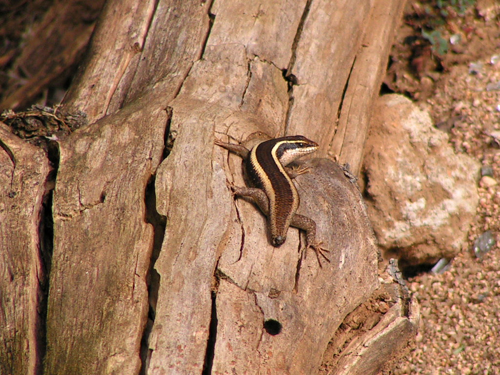 African Striped Skink (Trachylepis striata) in Kruger Park, South Africa